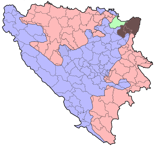 Municipalities in Bosnia and Herzegovina, Bijeljina region (RS) highlighted